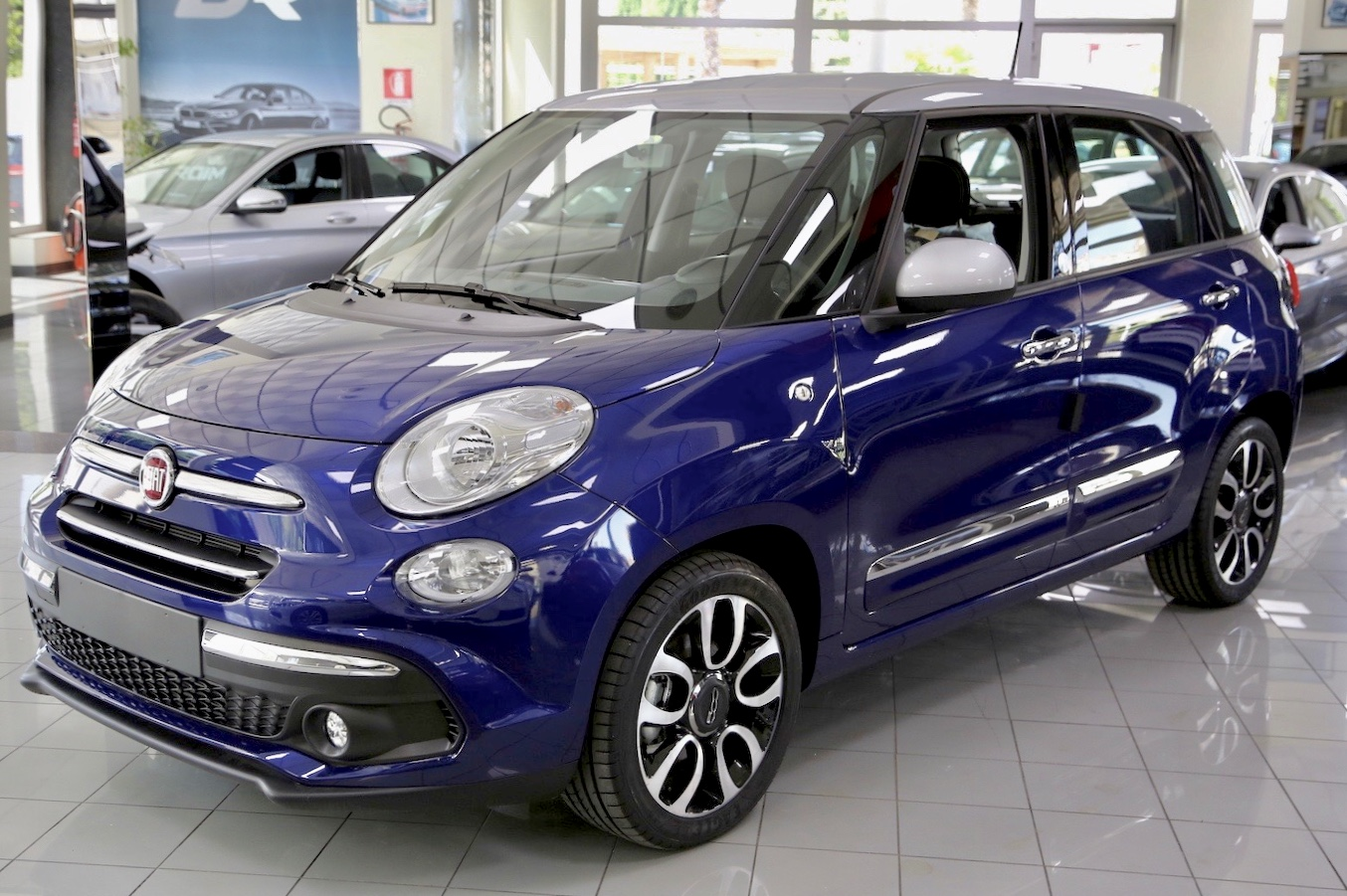 Fiat 500L facelift 1.3 Multijet